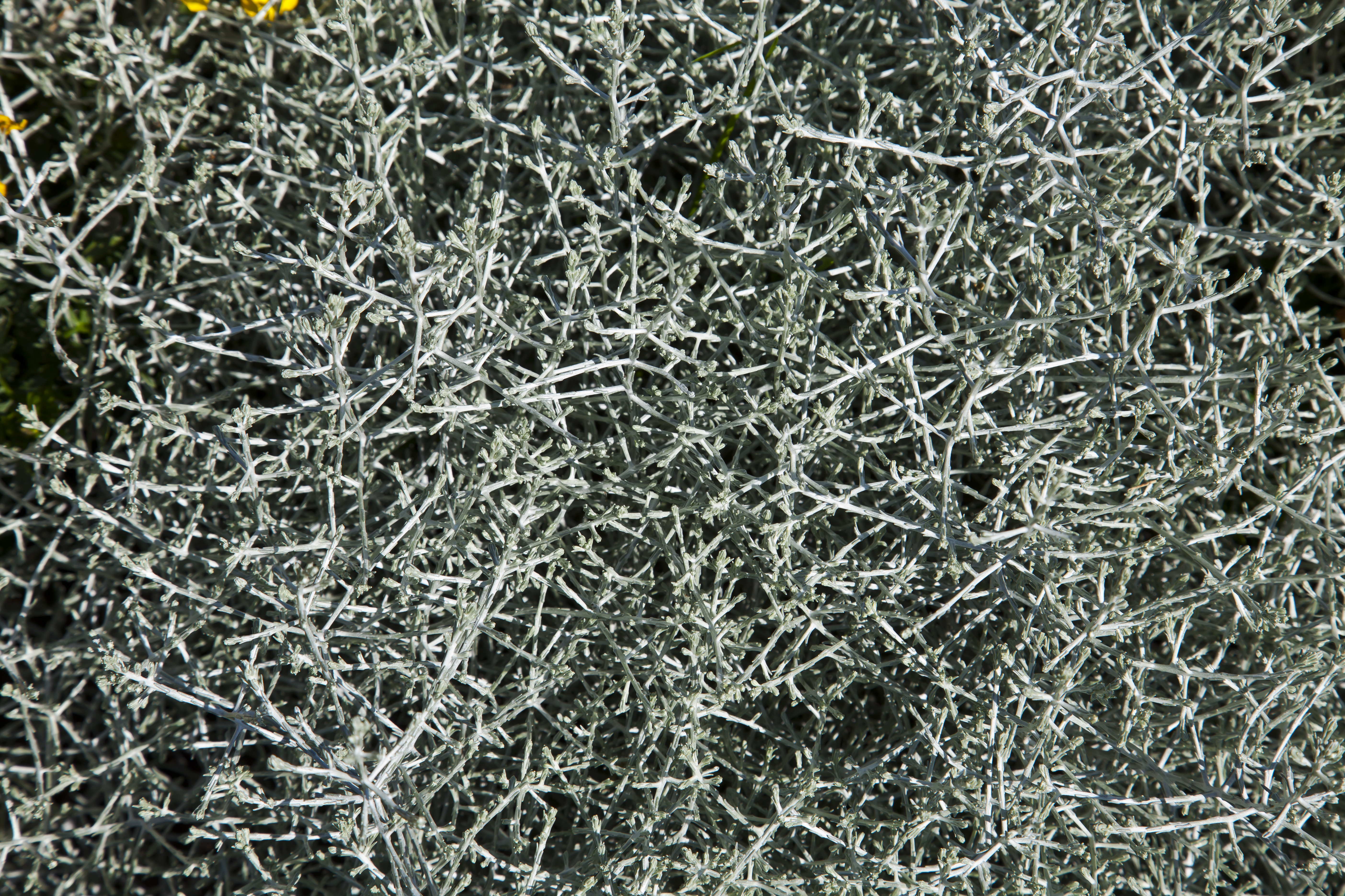 Leucophyta brownii, Tallinn Botanic Garden, Estonia